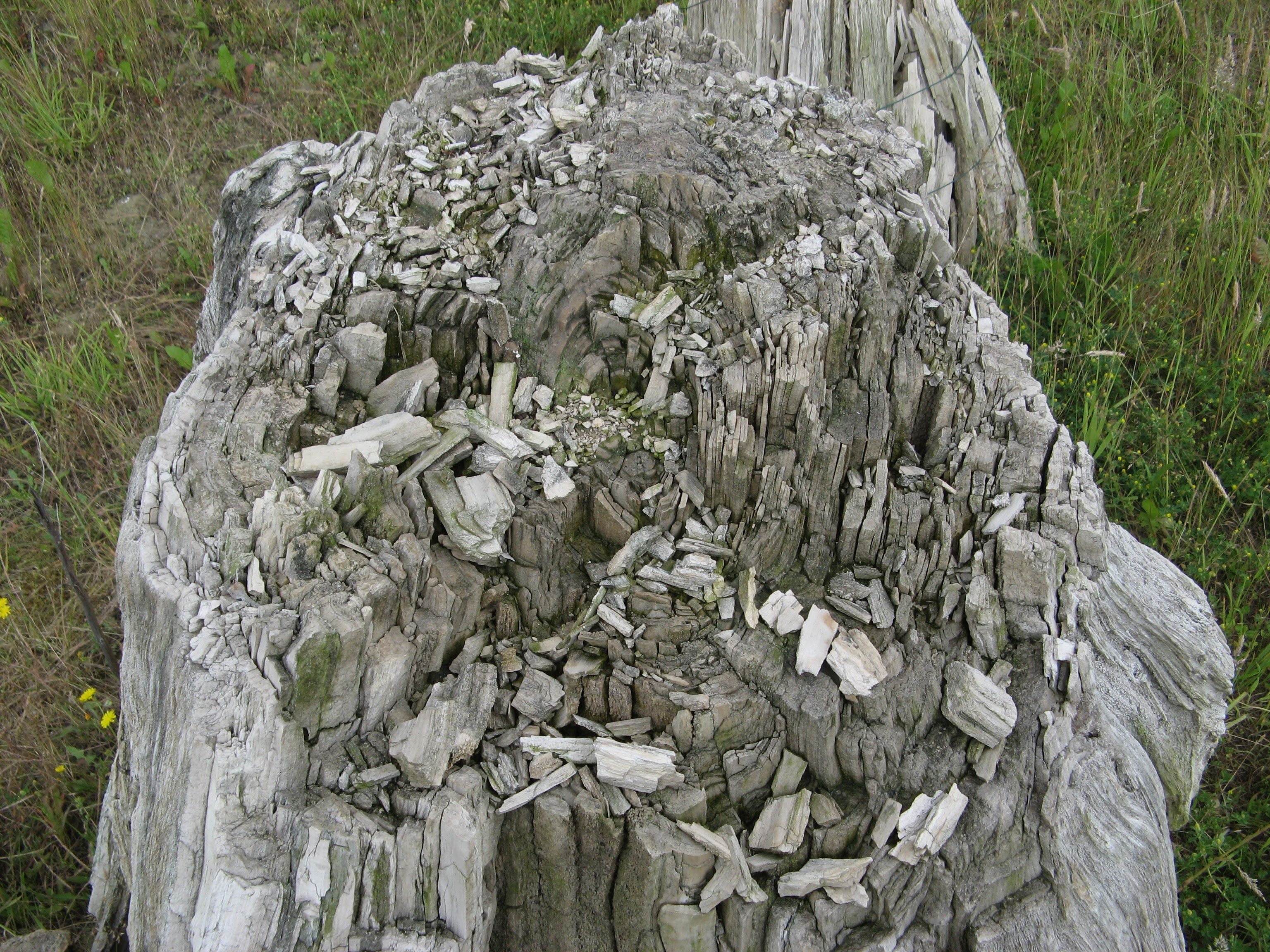 Geosite Goudberg